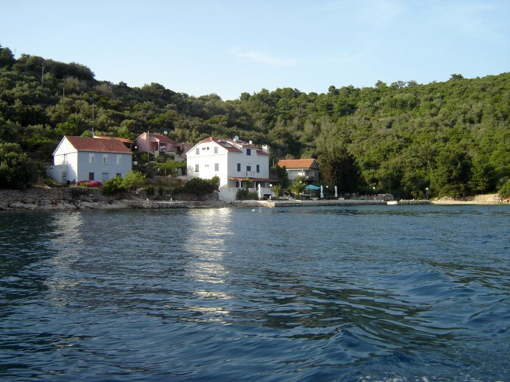 Grbavač bay on island Rava, Croatia.